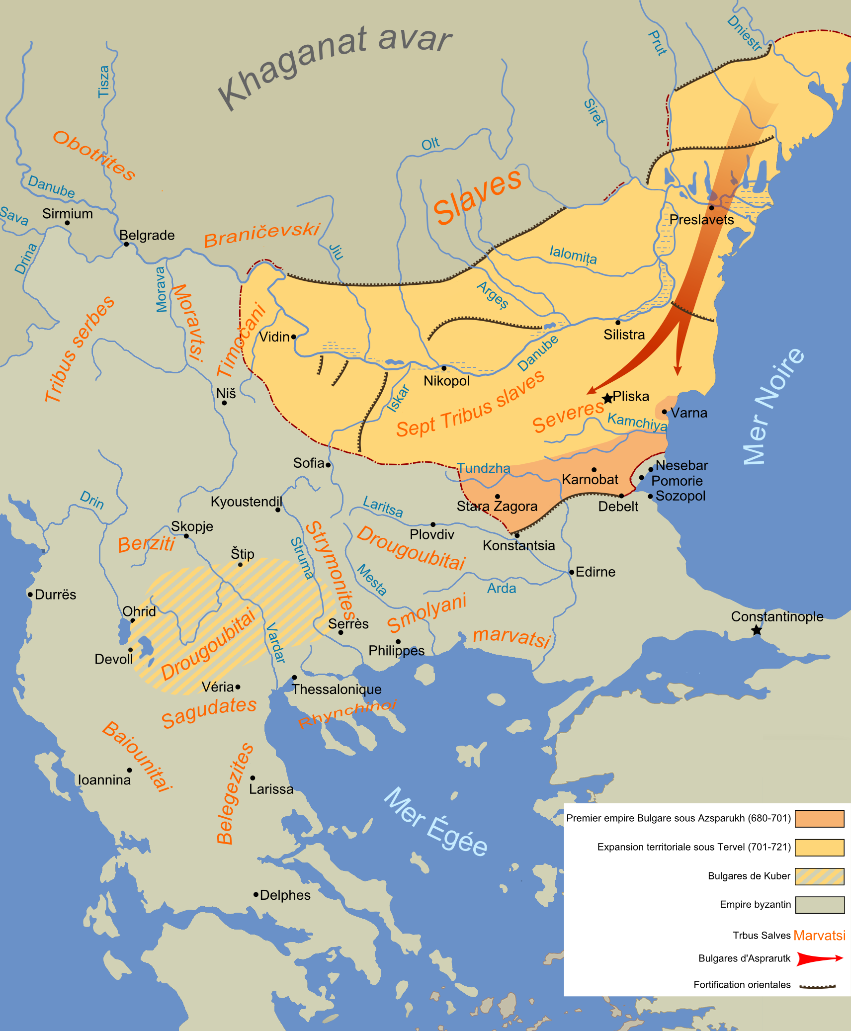 Danube Bulgar Khanate in 680 (With French names)